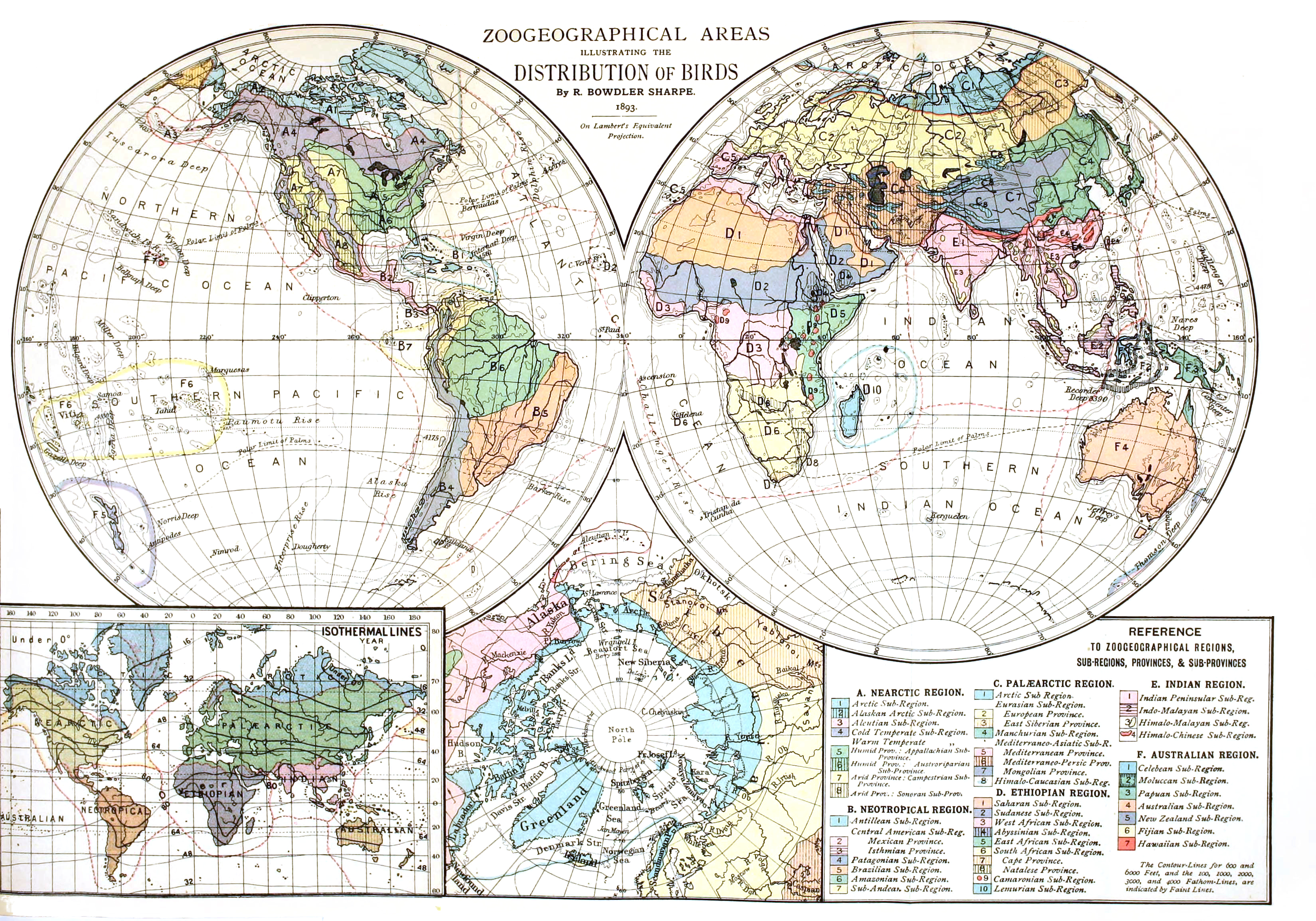 Zoo-geographical regions of the world